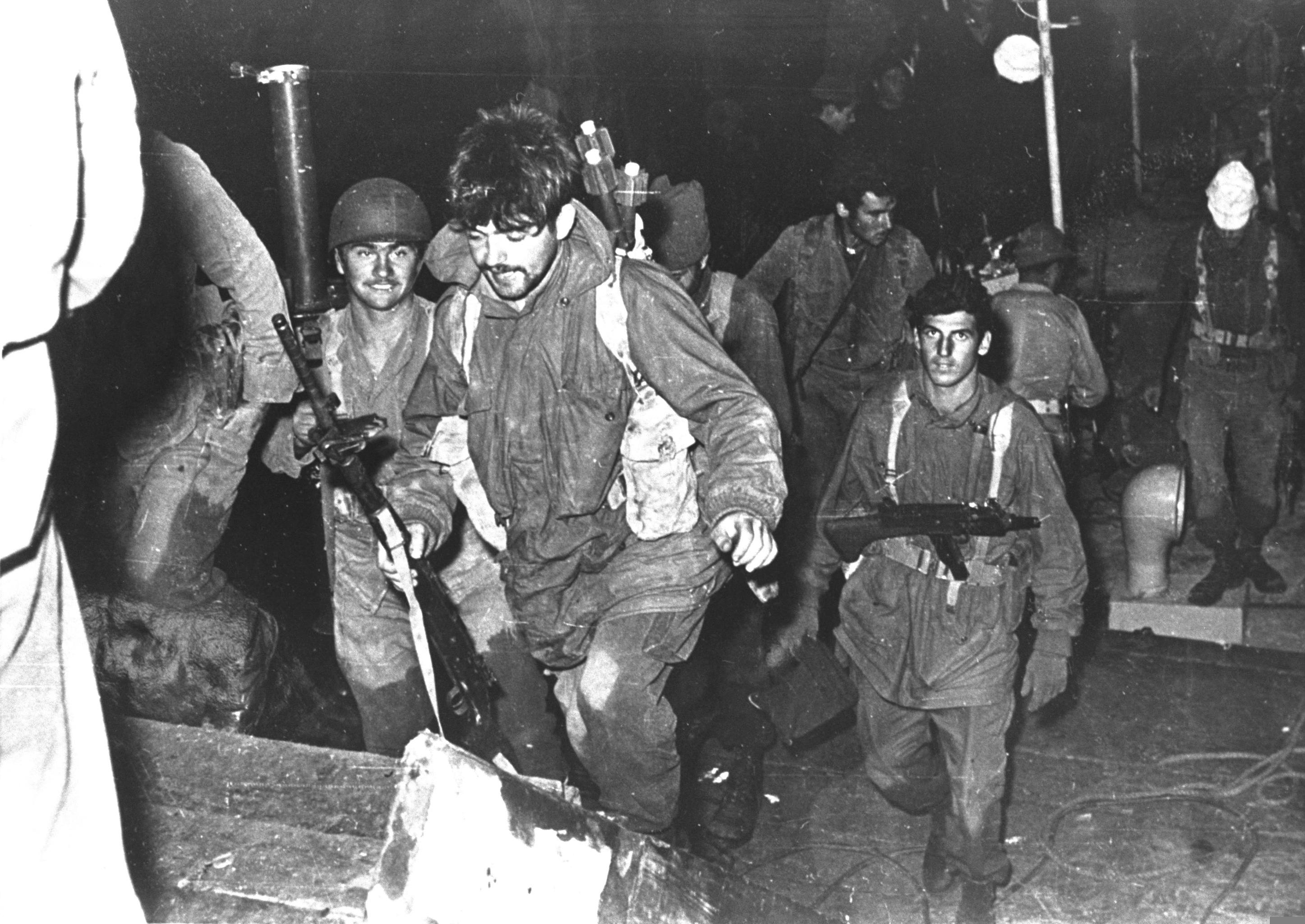 Operation Olive Leaves